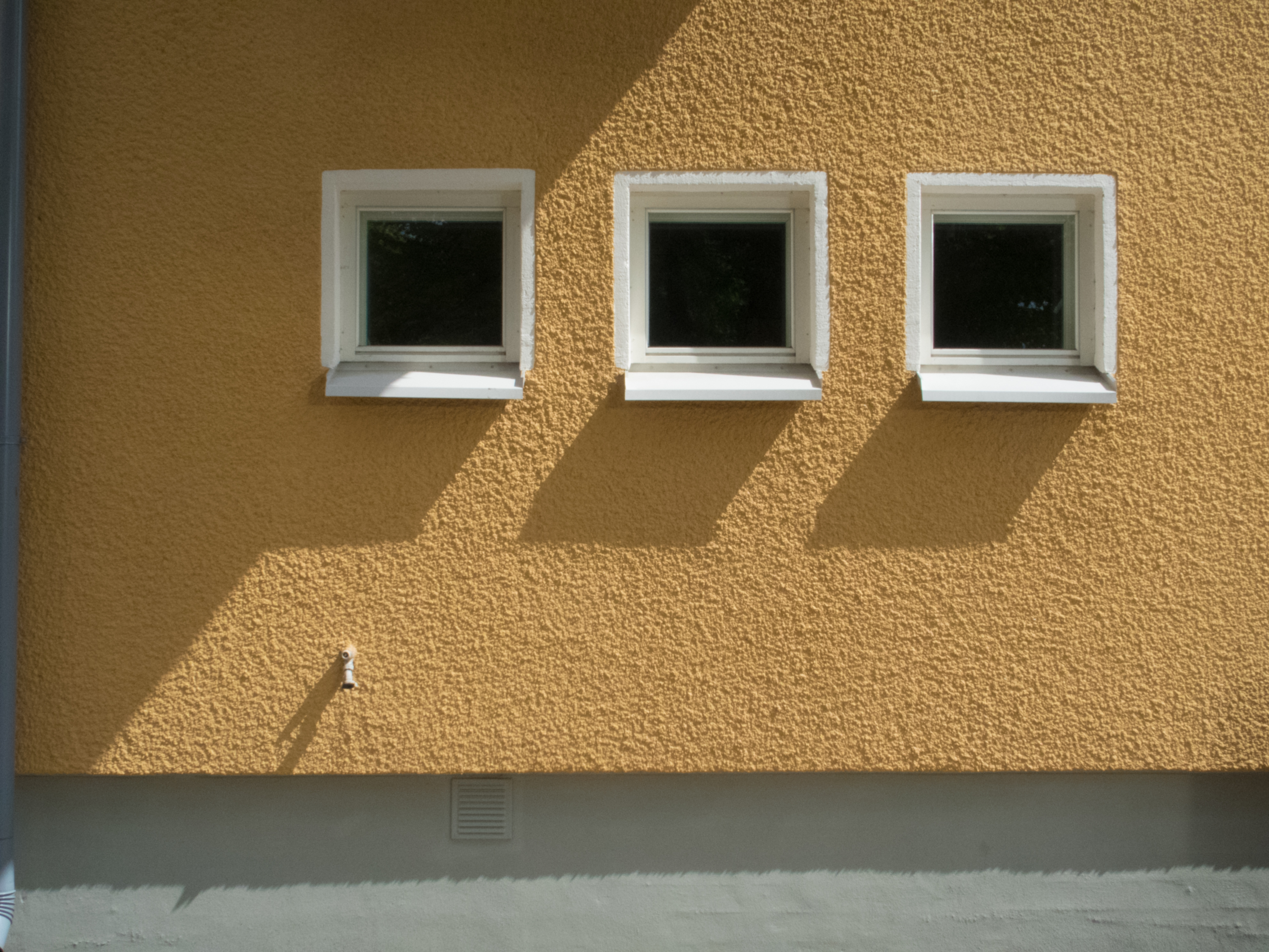 Plastered wall and shadows from small windows